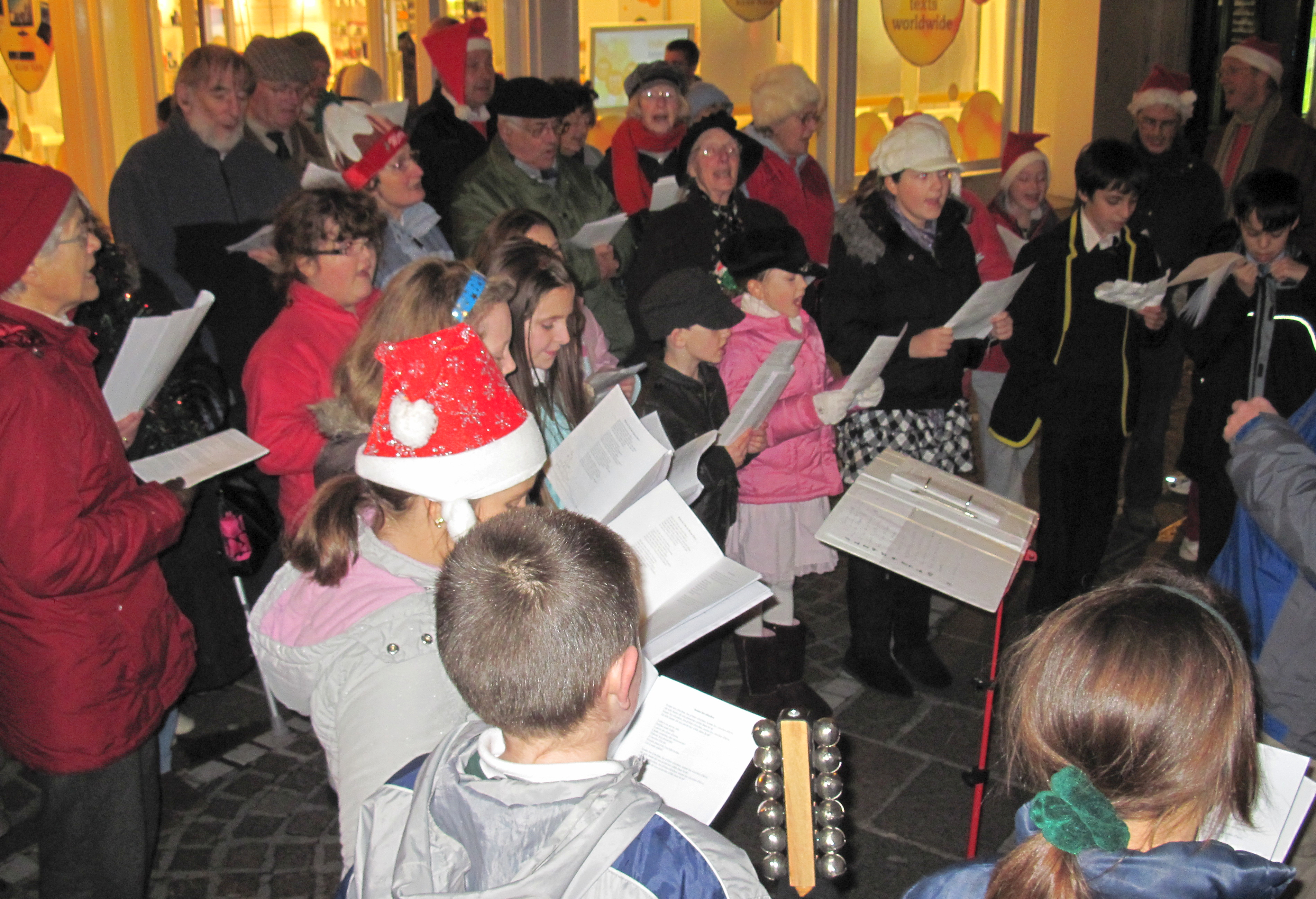 Christmas carol singing in Jèrriais